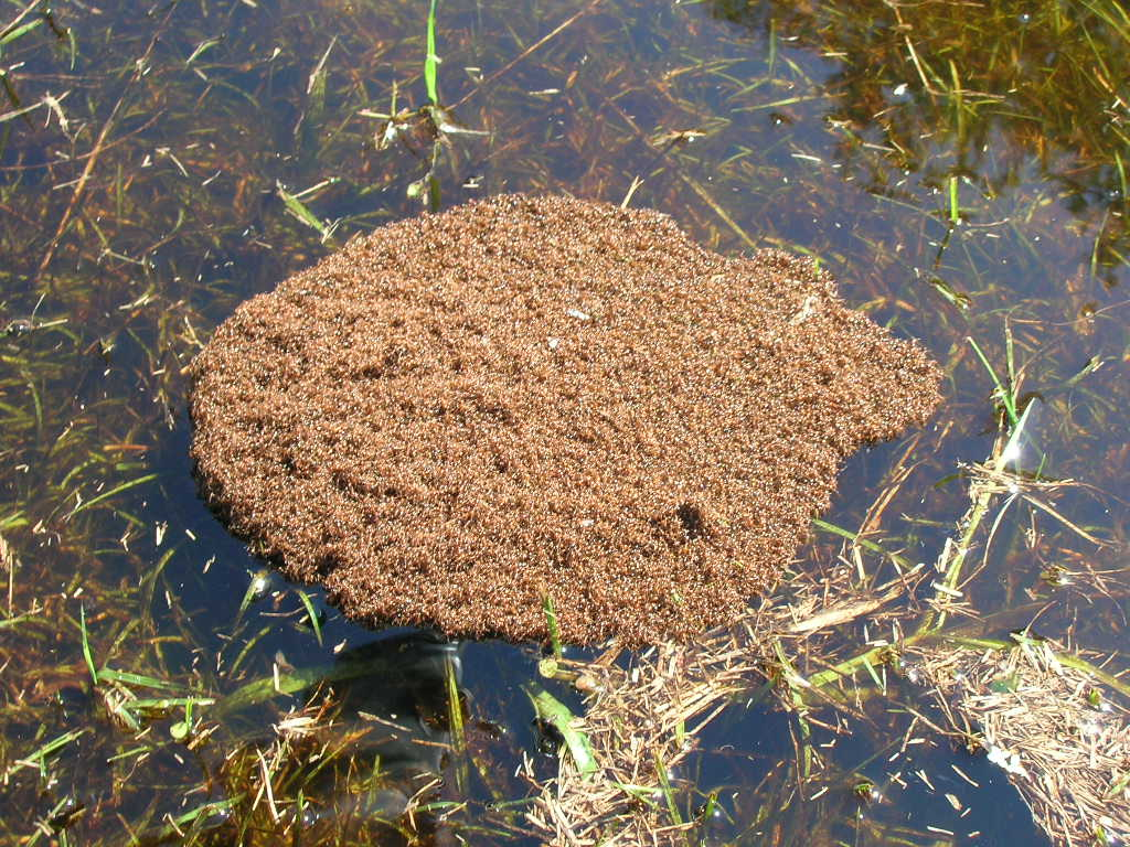 Fire ants cluster together after a heavy rain.